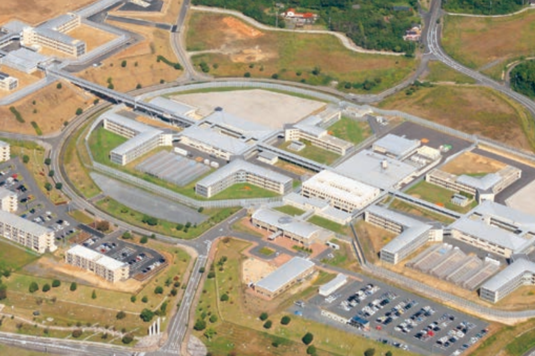 Mine Rehabilitation Program Center